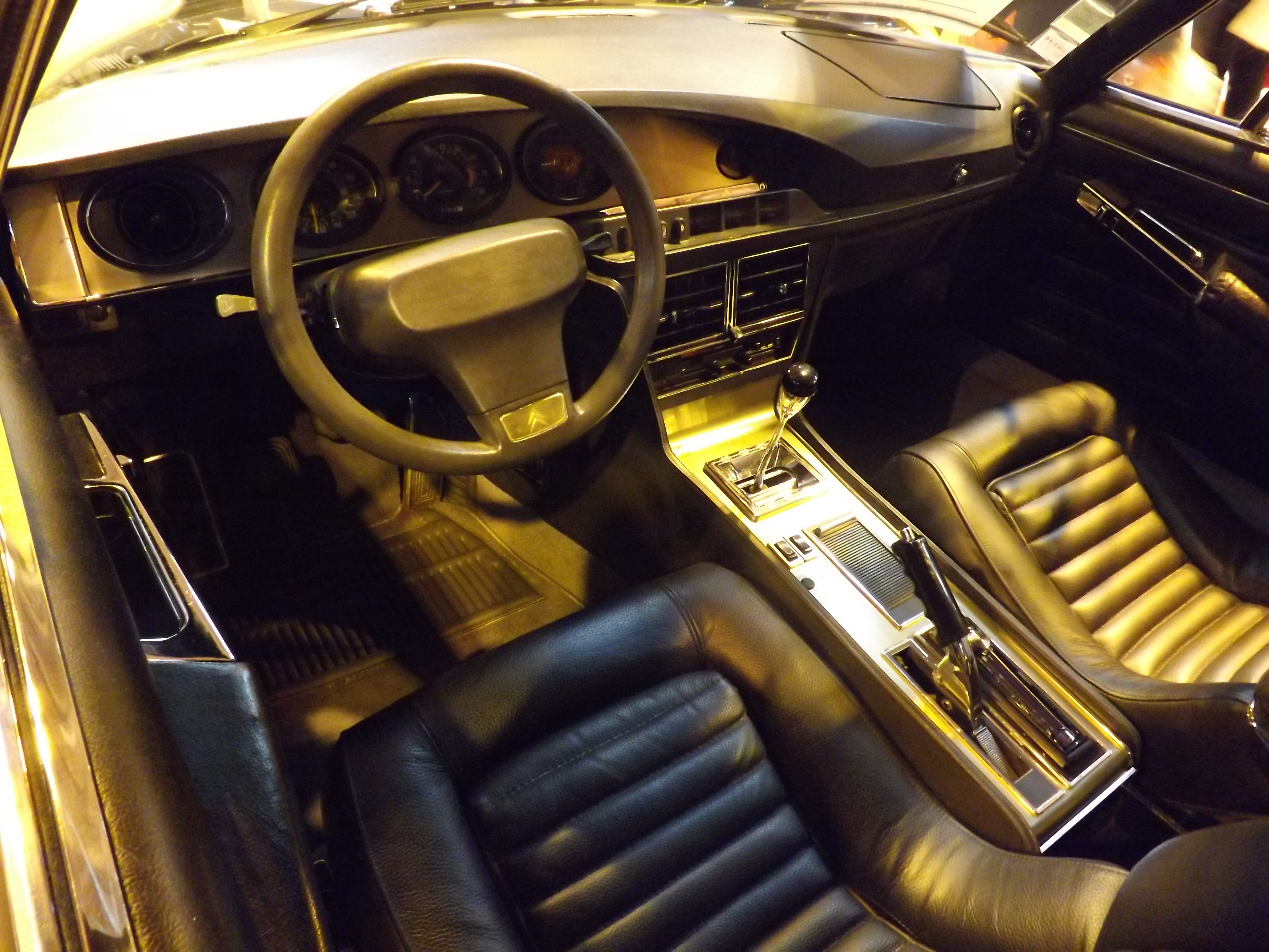 Stunning example. For sale of GBP32500. I wish I had garage space for a 5 metre long car!